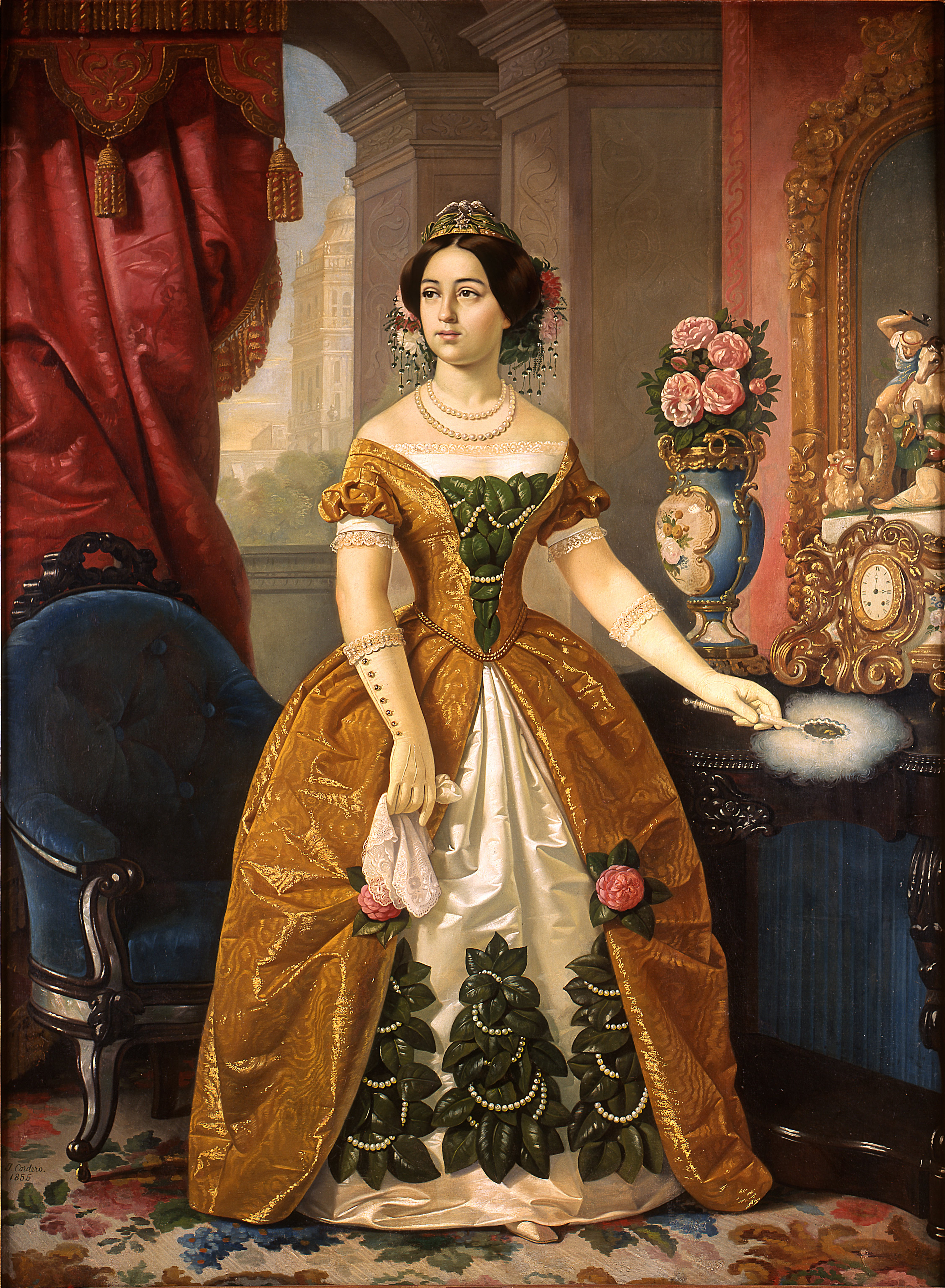 Born María Dolores de Tosta, at 15 in 1844 she became the second wife of Mexican political and military leader Antonio López de Santa Anna. This was painted 11 years later. Tosta lived primarily in Mexico City while Santa Anna travelled the country, so they rarely saw each other. They had no children.